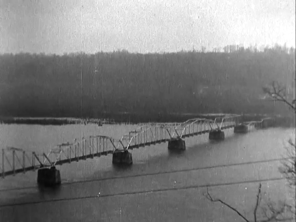 A film still of the Route 1 highway bridge over the Susquehanna River on the day of its demolition in 1928, taken from archival footage of said demolition.